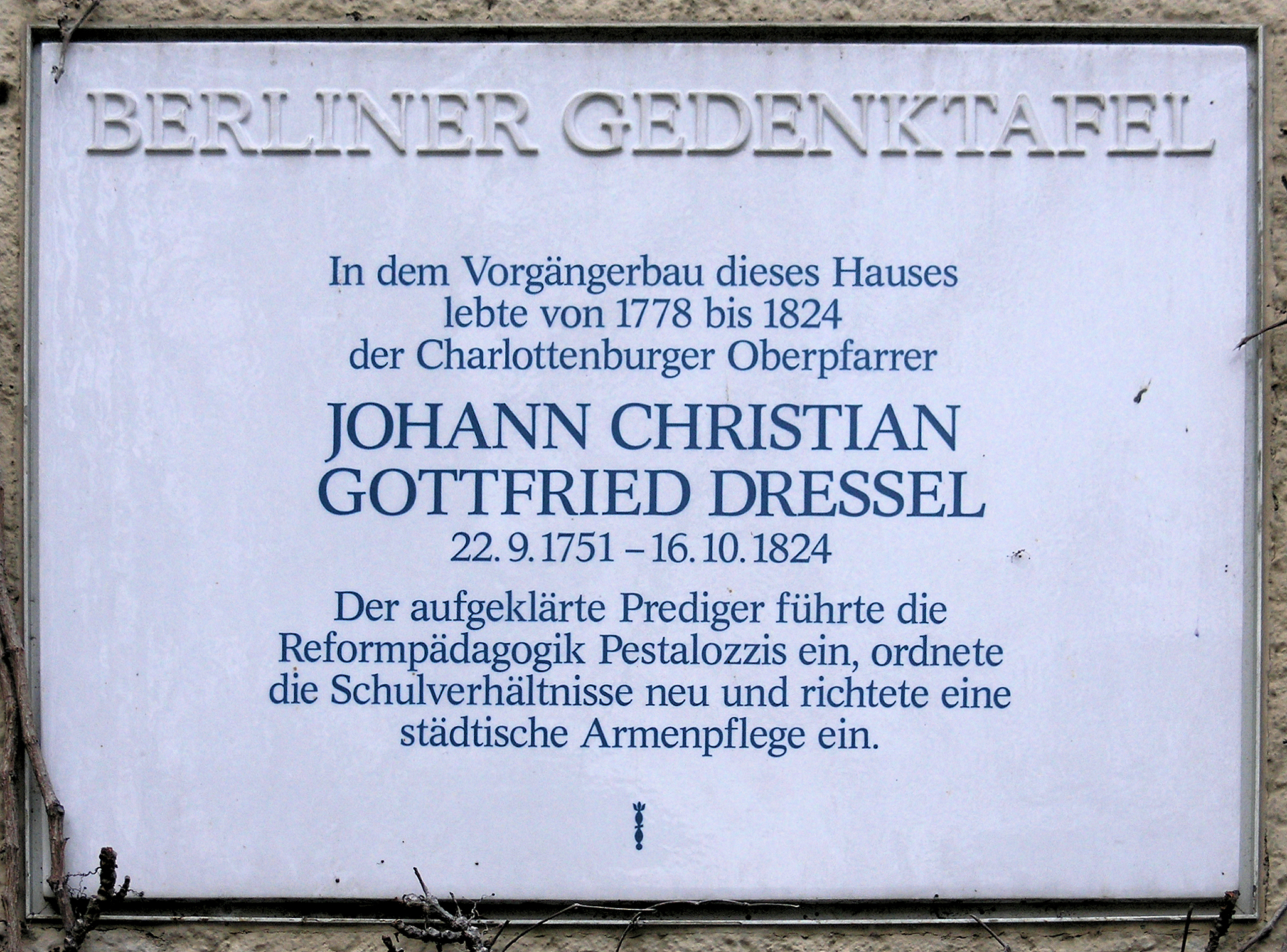 Berlin memorial plaque, Johann Christian Gottfried Dressel, Gierkeplatz 4, Berlin-Charlottenburg, Germany Koordinate:52°31′1″N 13°18′11″E / 52.51694°N 13.30306°E